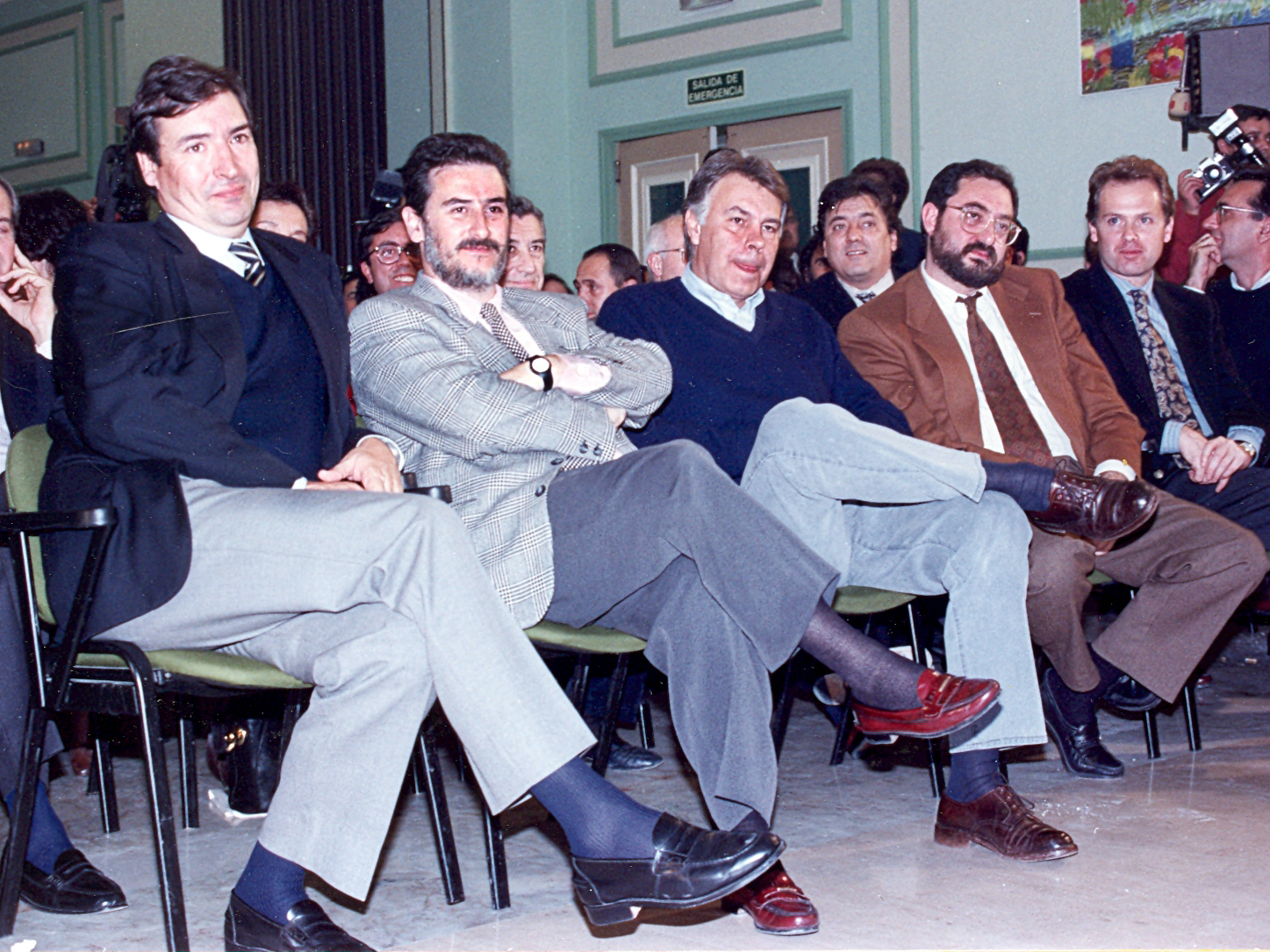 Jornadas Perspectivas